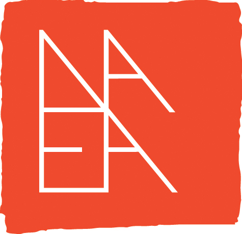 NAEA